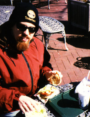 Alan of Land of the Loops eating a hamburger at the Statue of Liberty